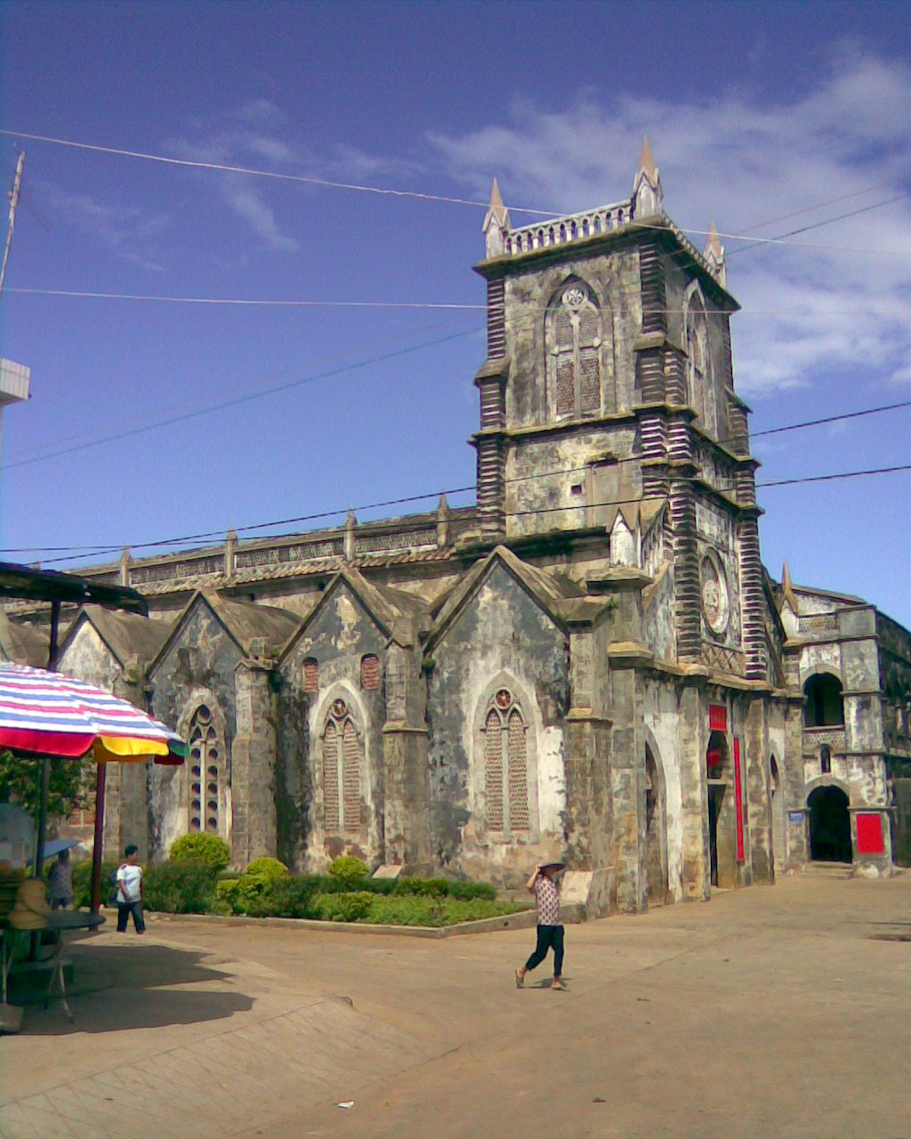 the catholic church in Shengtang village, Weizhou Island, Beihai, Guangxi, China